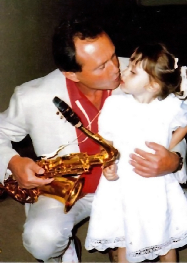 Stan Getz with granddaughter, Kathleen McGovern. Backstage at Lincoln Center, NYC, June 1987